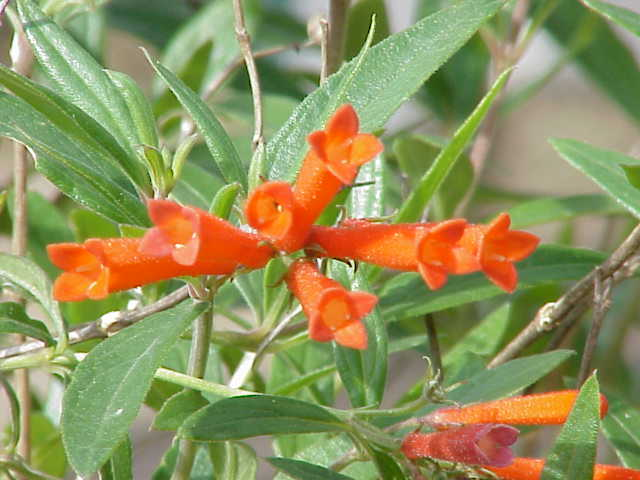 Species: Bouvardia ternifolia Family: Rubiaceae Image No. 1